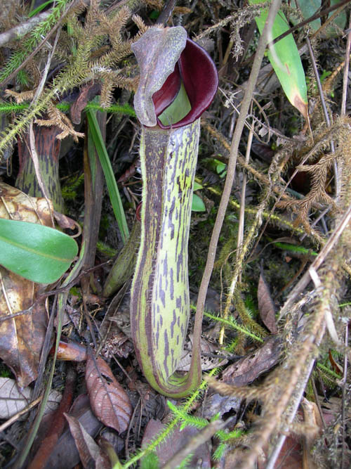 N.fusca Crocker Range